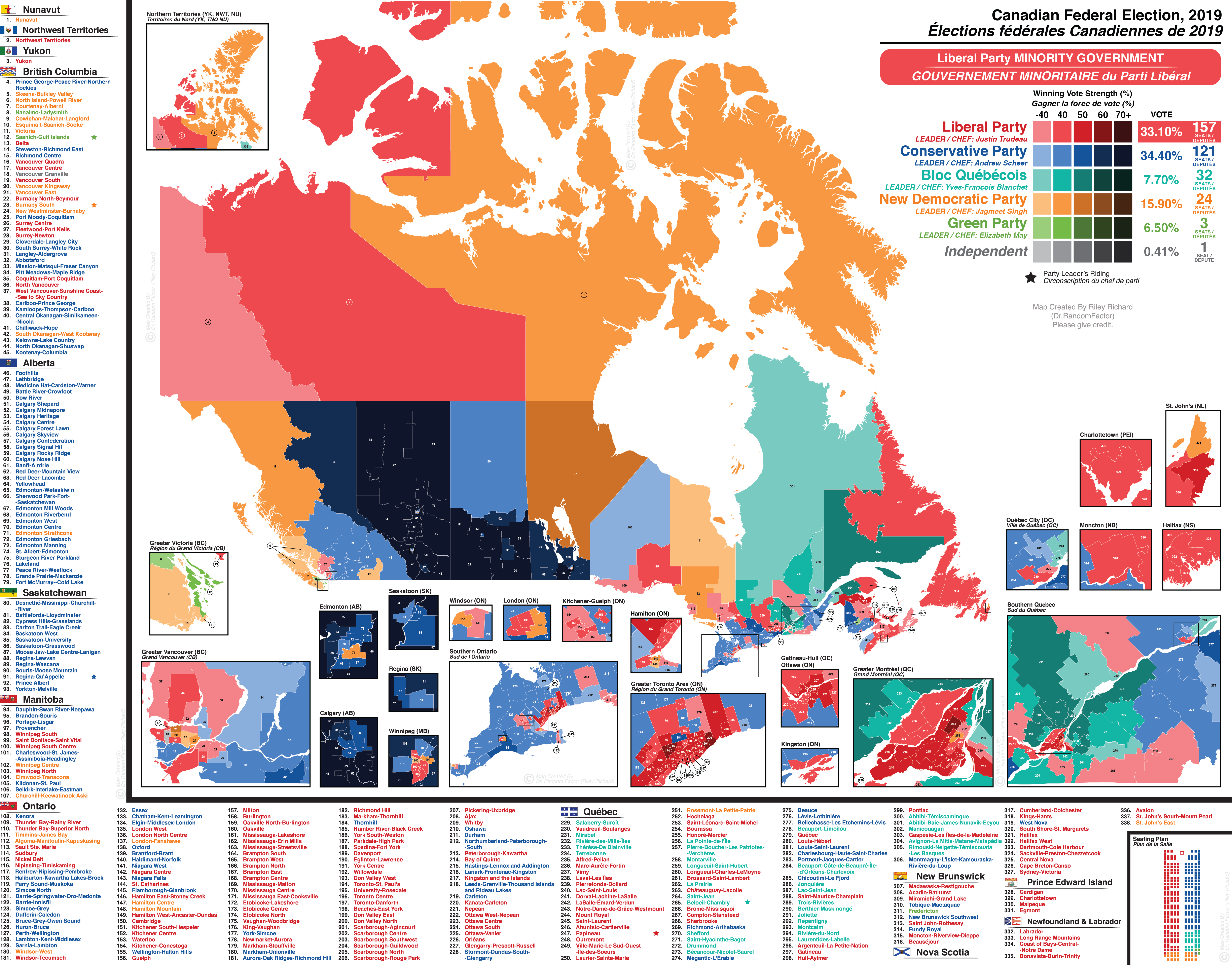 Map of the 2019 Canadian federal election - showing the winning vote results in each of the country's 338 electoral constituencies (ridings) (PNG ONLY)